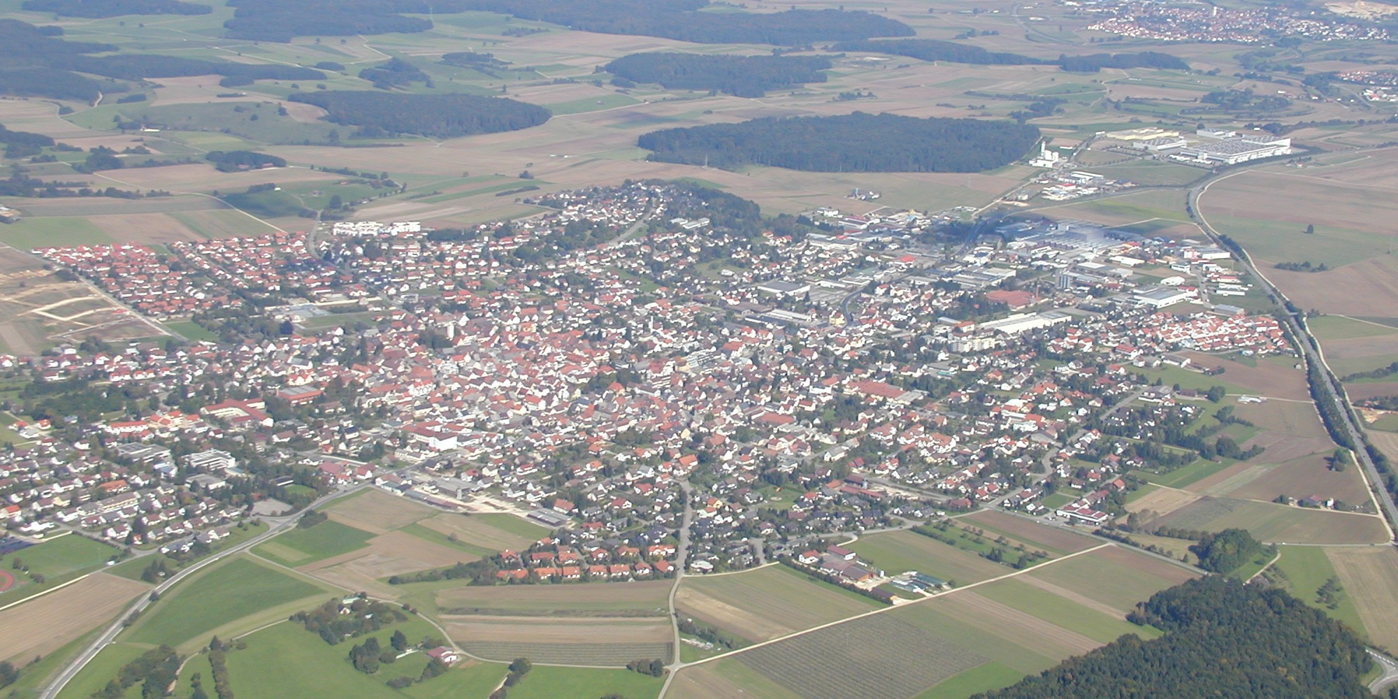 City of Laichingen (Germany/Baden-Württemberg), aerial-photo, by Karle3, 2003-09